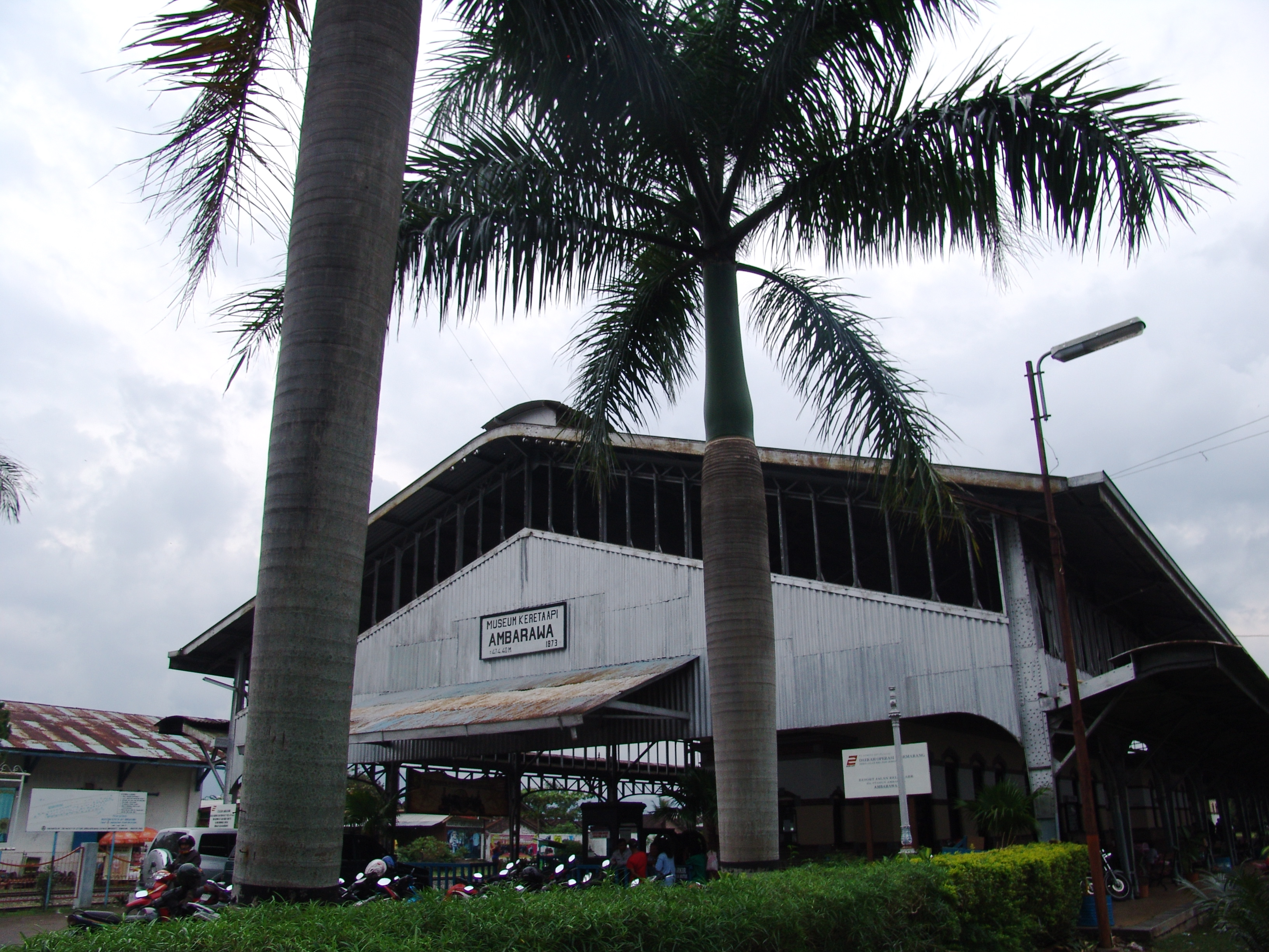 rail station Ambarawa